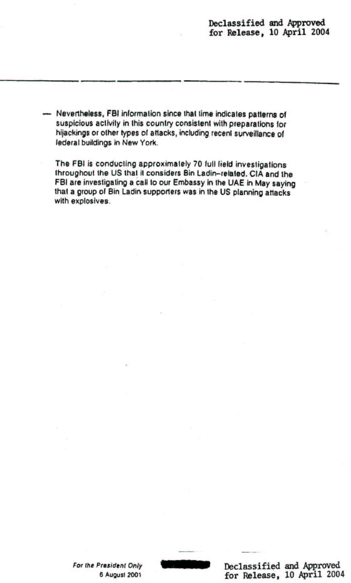 Page 2 of 2 from a CIA memo dated August 2001 concerning a possible attack by Bin Laden on the United States of America.